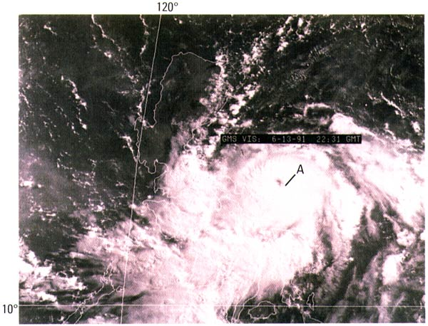 Typhoon Yunya at peak intensity near the Philippines